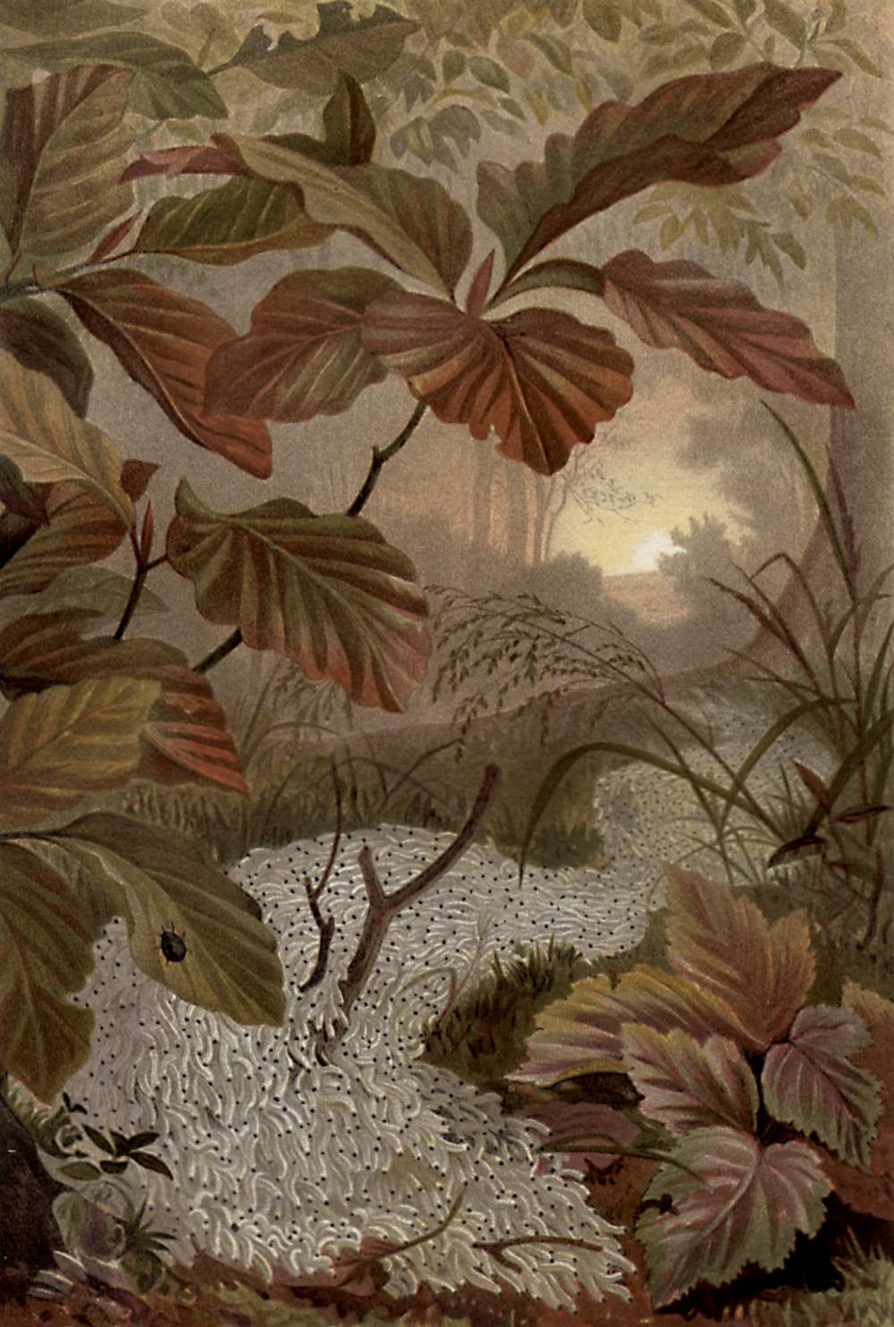 Heerwurm nach Brehms Thierleben